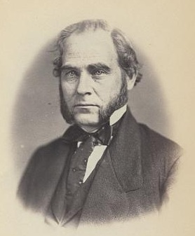 Clark B. Cochrane, Congressman from New York